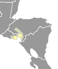 Lenca languages, source: Ethnologue: Honduras and El Salvador